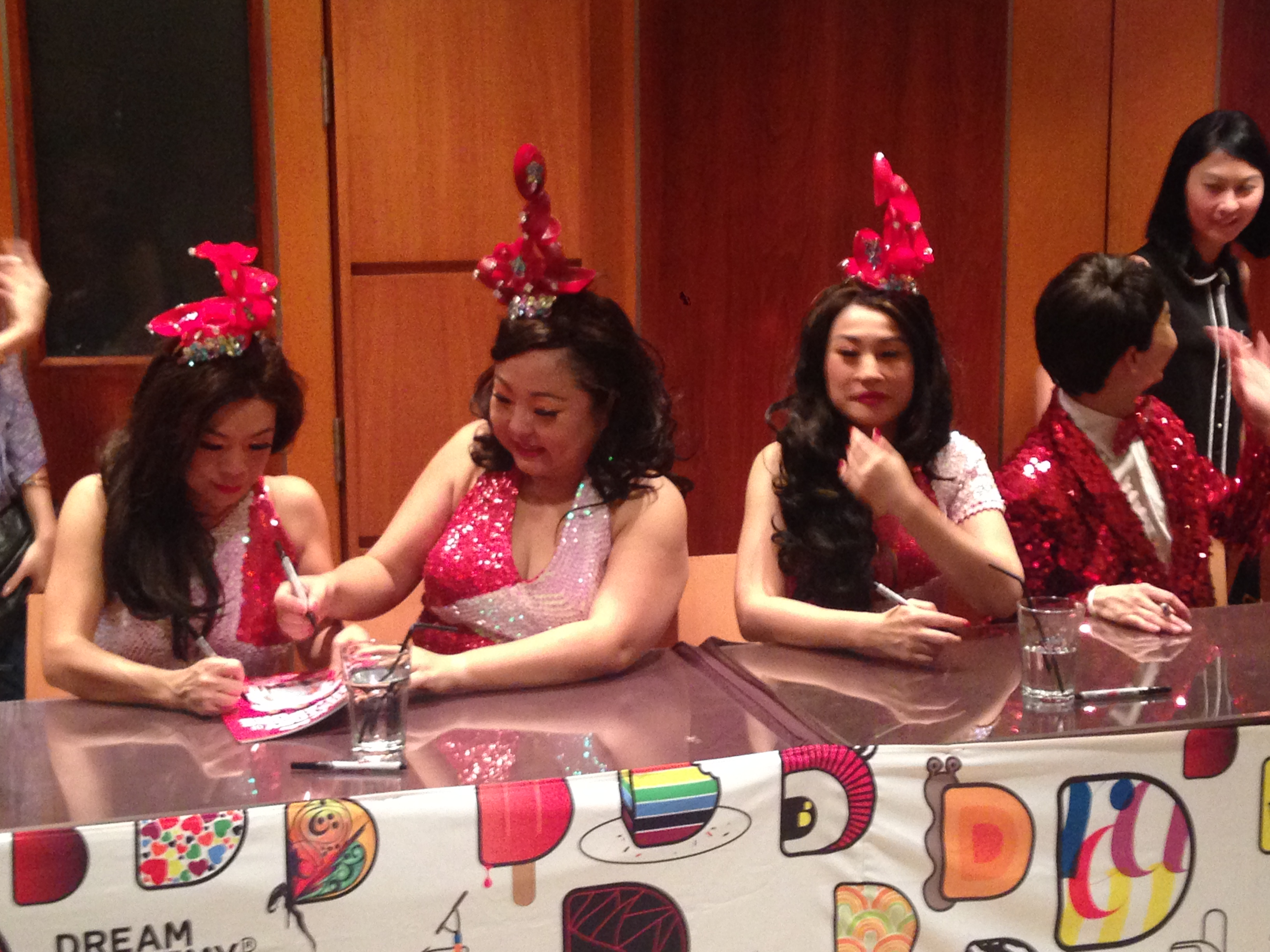 The Dim Sum Dollies signing autographs after their show Dim Sum Dollies: The History of Singapore Part 2 at the Esplanade Theatre, Esplanade – Theatres on the Bay, Singapore. They are (from left to right) Pamela Oei, Selena Tan and Denise Tan. Actor Hossan Leong (facing away from camera) is on the right.